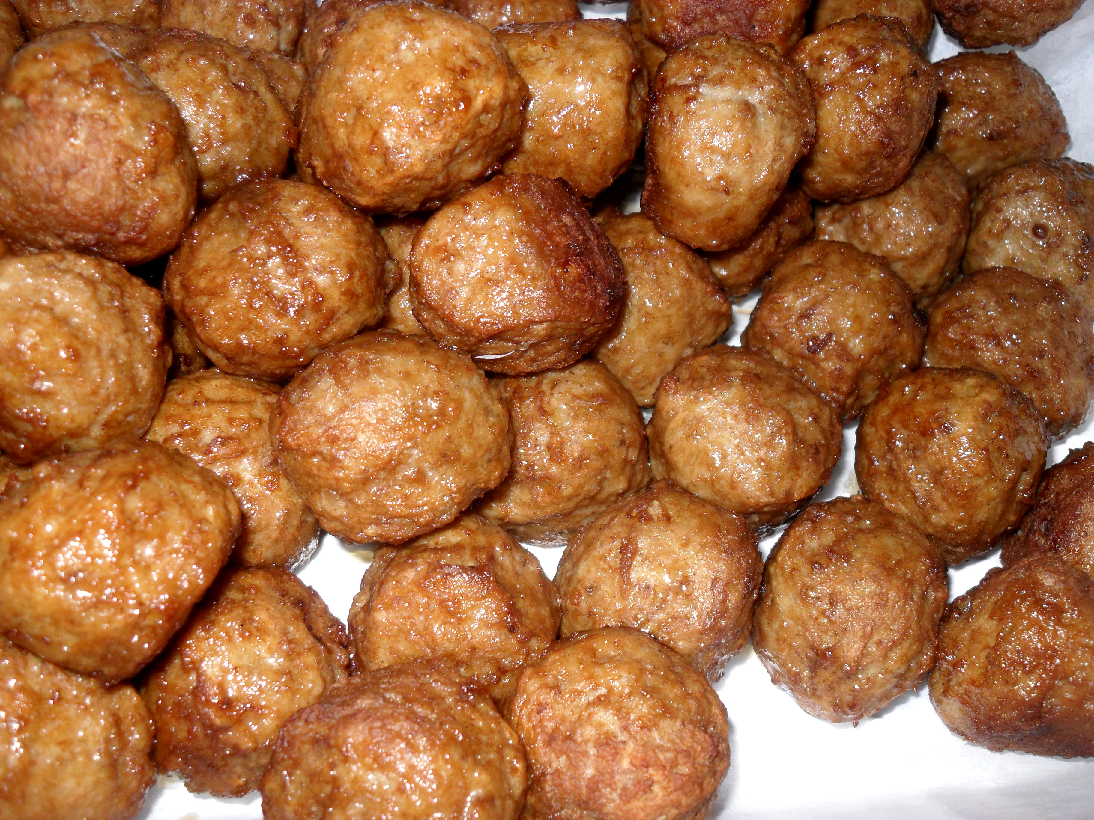 Swedish meatballs "Köttbullar".